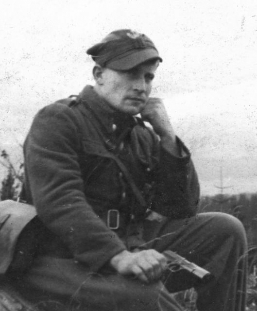 Józef Kuraś, (noms de guerre "Orzeł" (Eagle), "Ogień" (Fire)), 1915-1947 lieutenant in the Polish Army who fought in the Polish September Campaign, a partisan of Armia Krajowa and Bataliony Chłopskie in the Podhale region and after World War II one of the leaders of anticommunist resistance. He died in Nowy Targ on February 22, 1947 from a self inflicted wound after being surrounded by units of Polish secret police. Vilified by communist propaganda, he was officially rehabilitated after the fall of communism